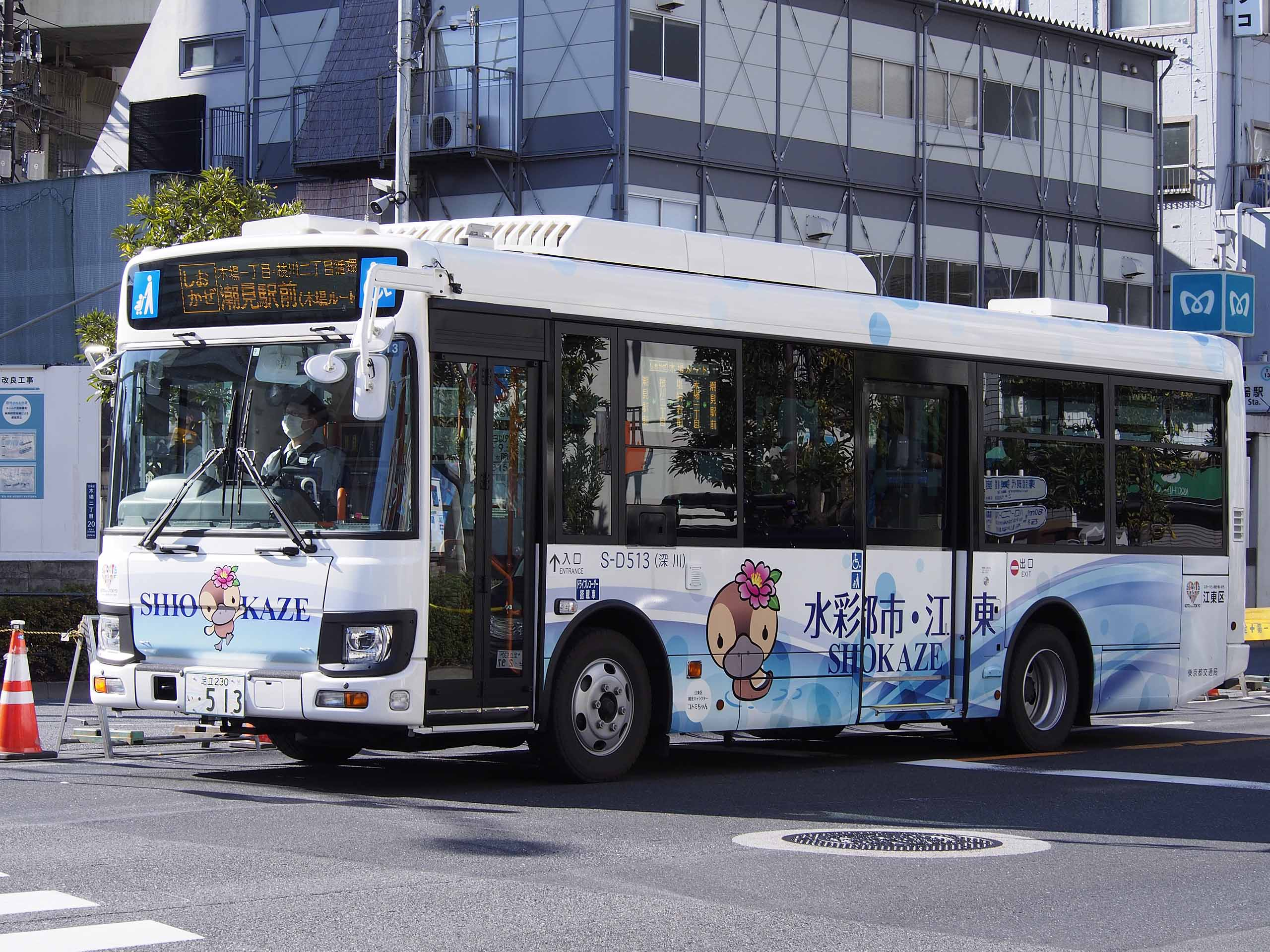 Fleet of Toei Bus, for Koto ward Community Bus "Shiokaze". Model: Isuzu Erga Mio 2KG-LR290J3 License plate: TKA230 I0513 Place: Kiba, Koto ward, Tokyo Japan